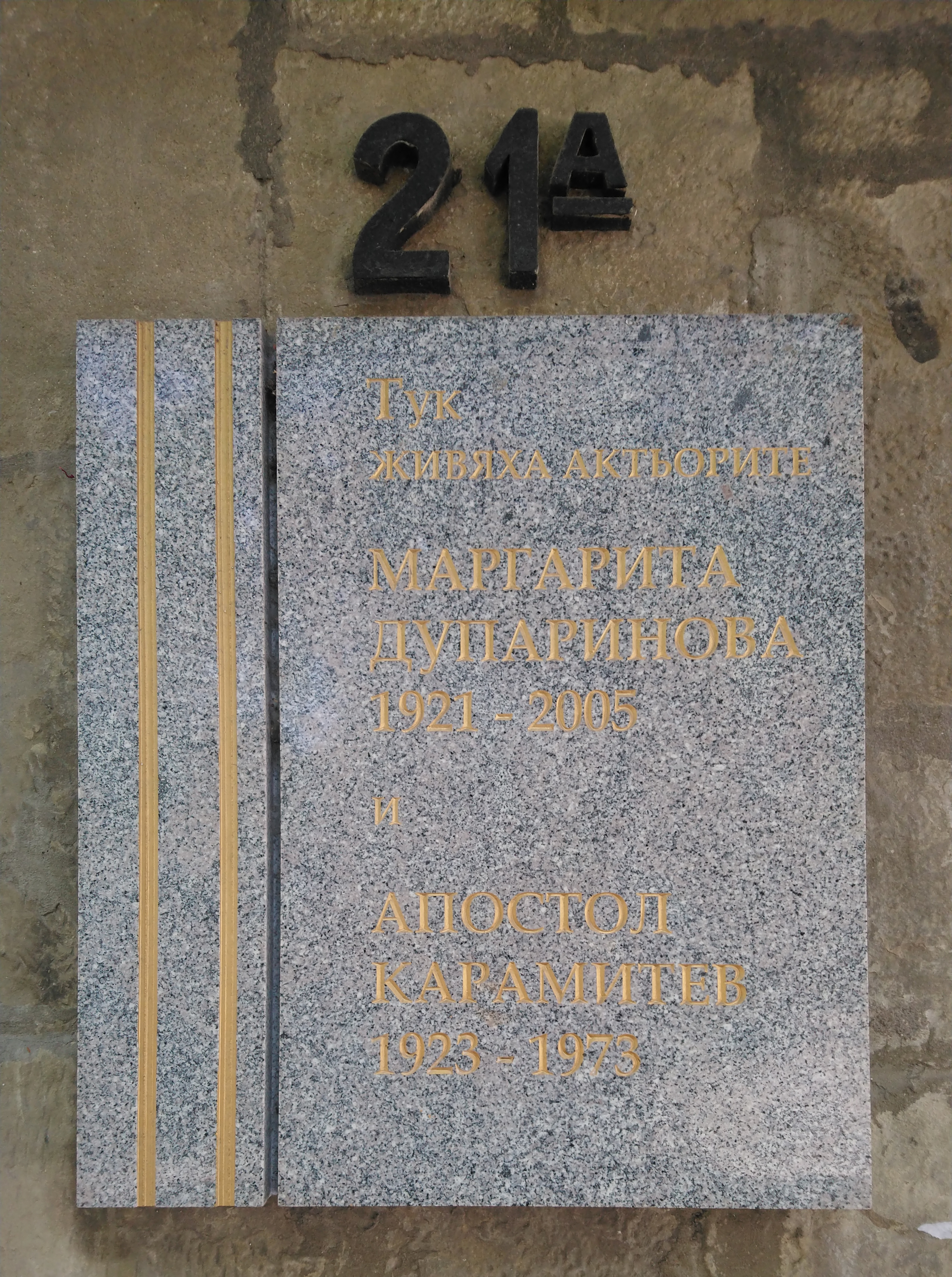 Margarita Duparinova and Apostol Karamitev memorial plaque, 21A Oborishte Str., Sofia